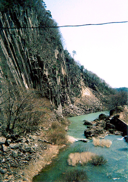 Obara no Zaimoku-iwa ("Zaimoku Rock of Obara") in Shiroishi City, Miyagi Prefecture, Japan